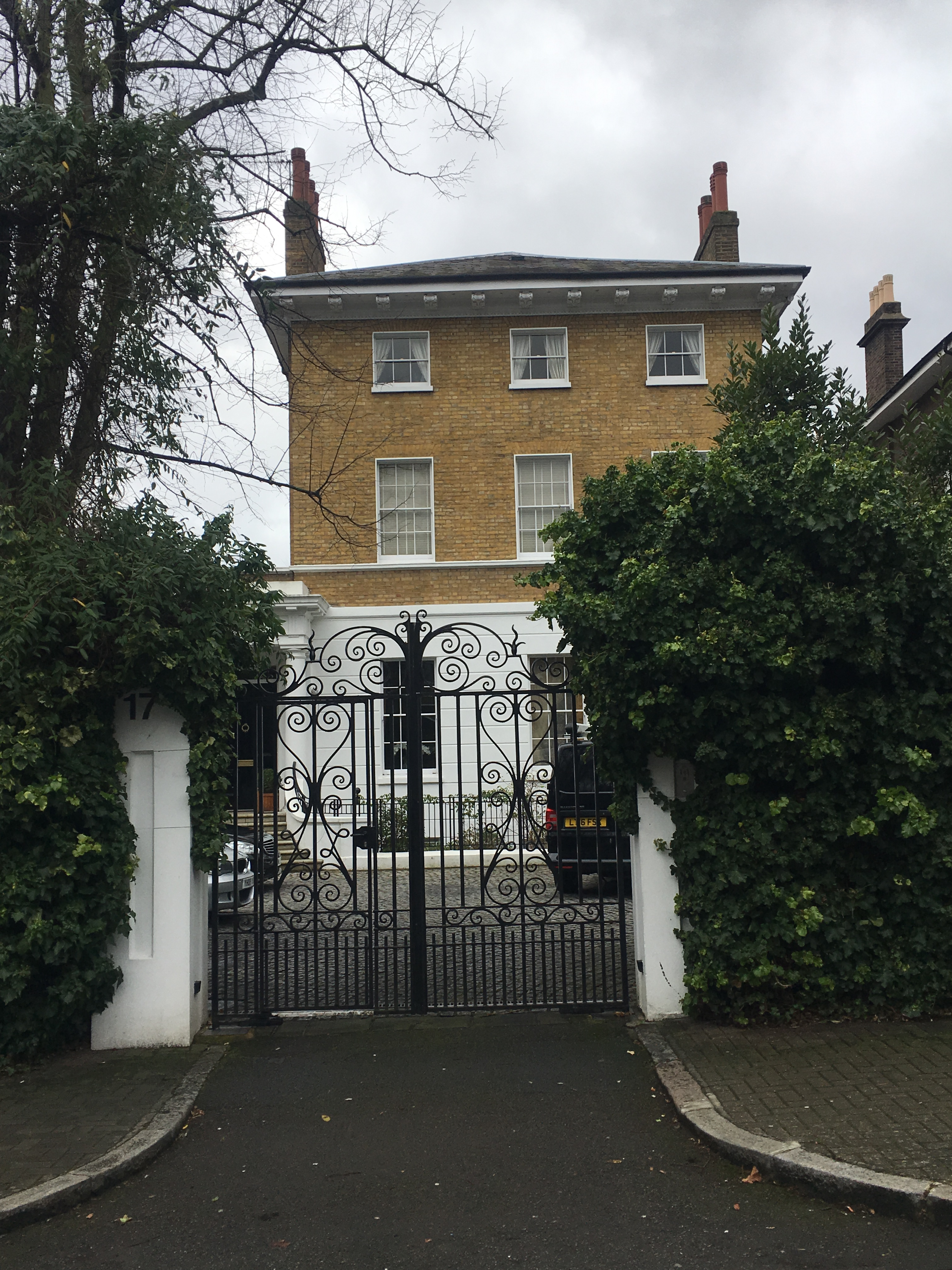 17, Cavendish Avenue Nw8 Wikidata has entry Q26639820 with data related to this item.